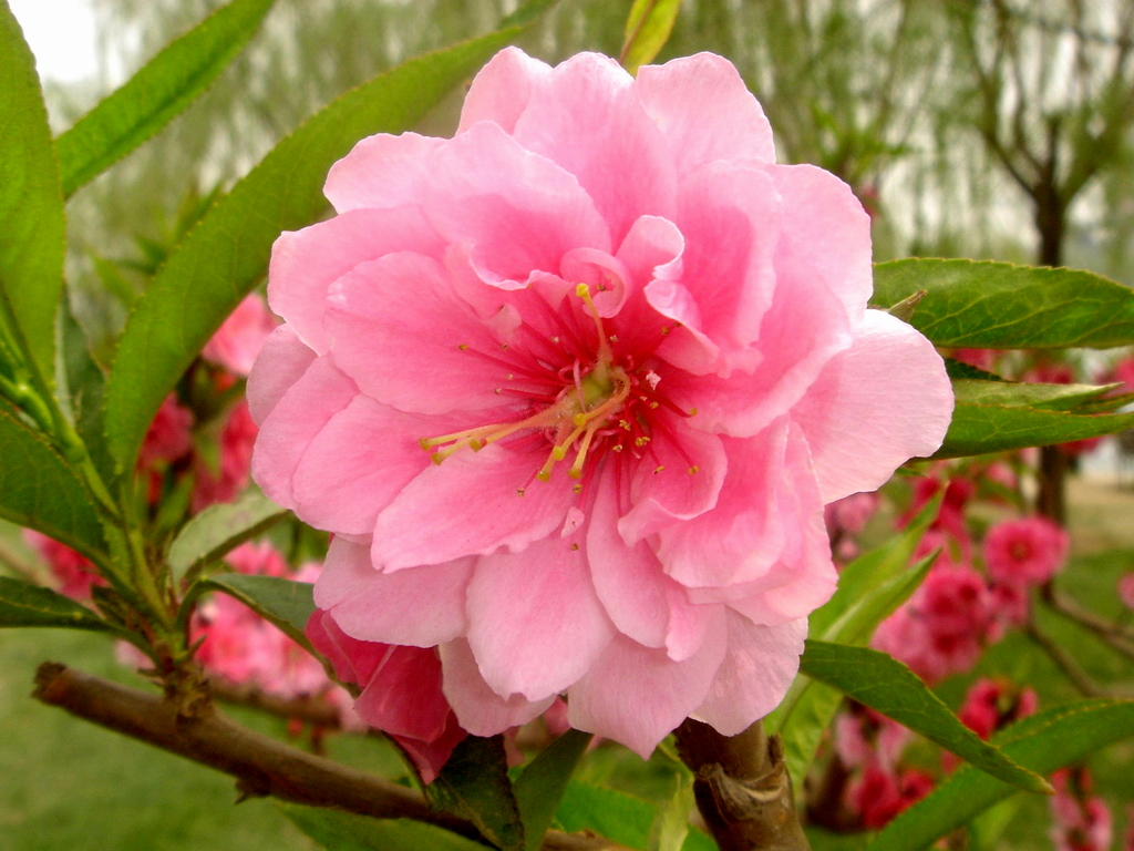 Peach Flower taken in Teda, Tianjin, China